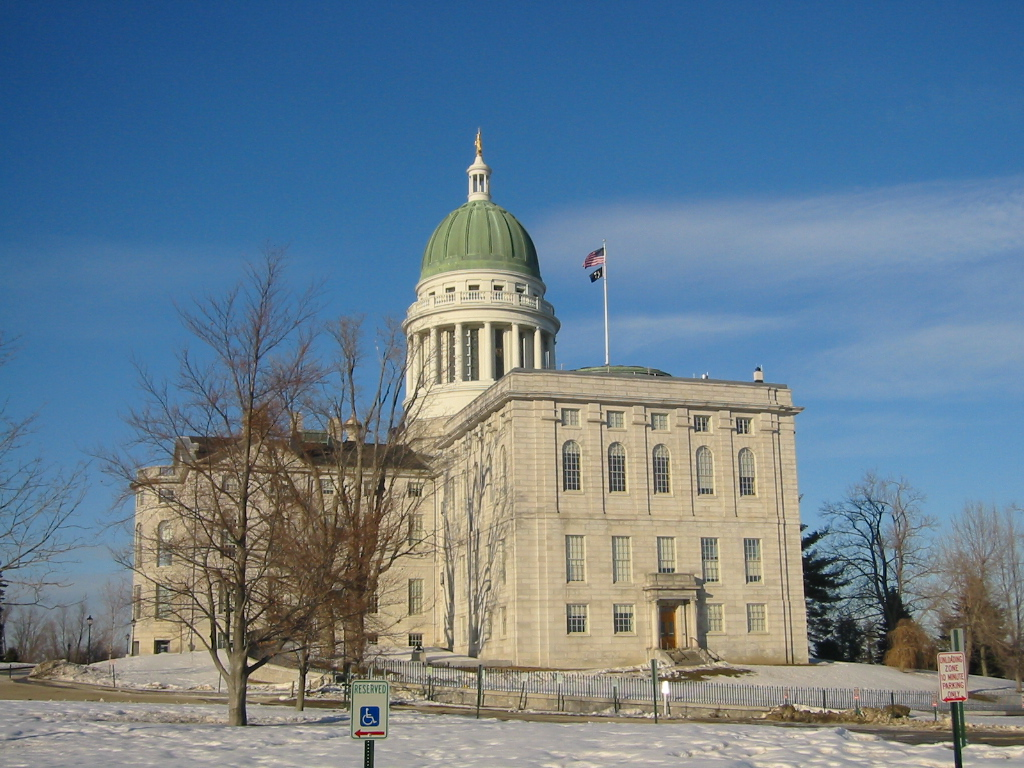 Maine State House in Augusta, Maine, USA